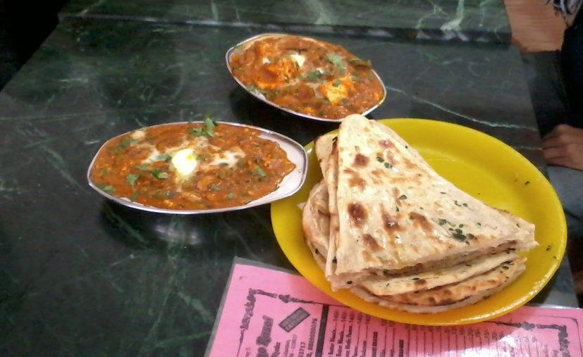 We Indians love recipes made perfectly with Paneers ( Fresh Cheese). This Indian food is called Shahi Paneer ( Tomatoes & Paneers are considered as its main ingredients) , mostly served with butter naans.